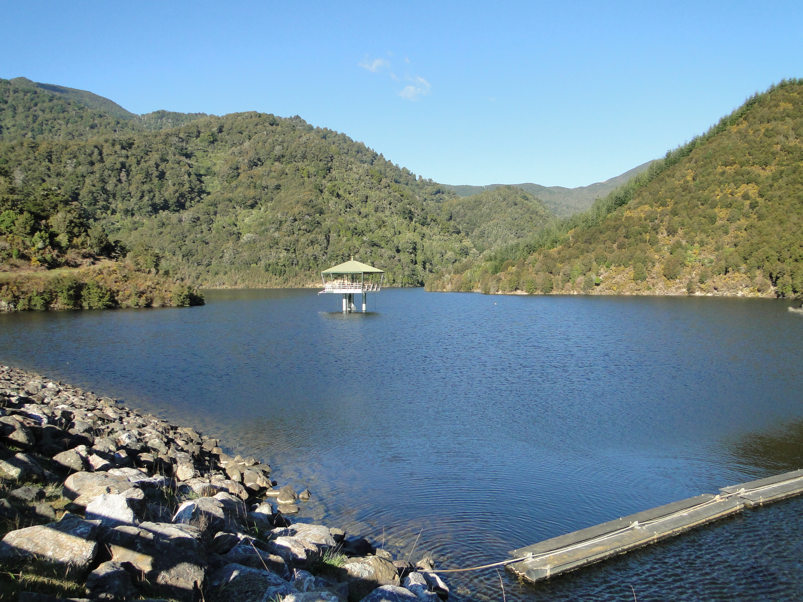 The water behind the dam on the Maitai River, near Nelson, New Zealand.